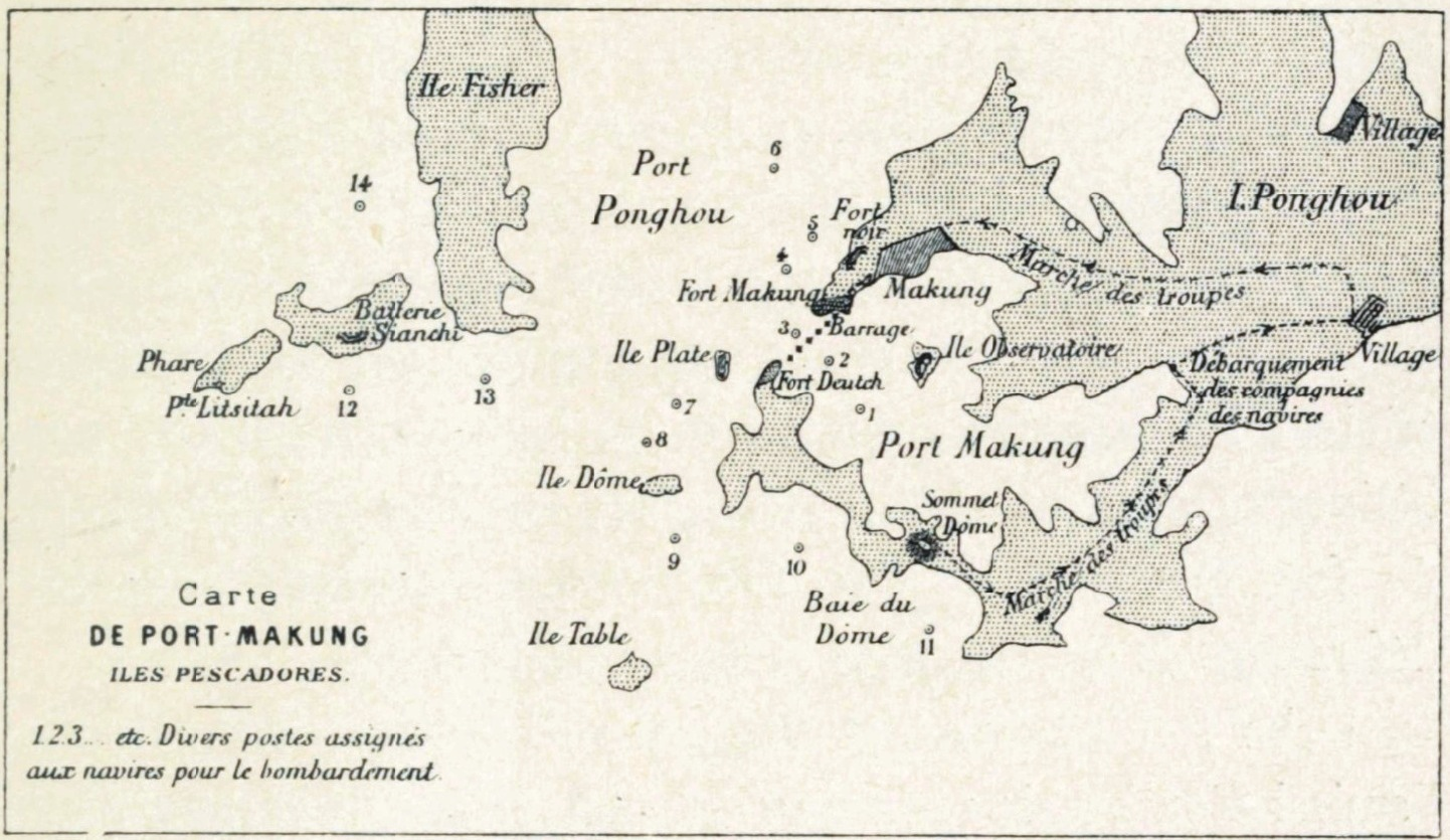 Plan of Port-Magong on islands Pescadores during the attack of the French squadron of admiral Courbet in March, 1885.